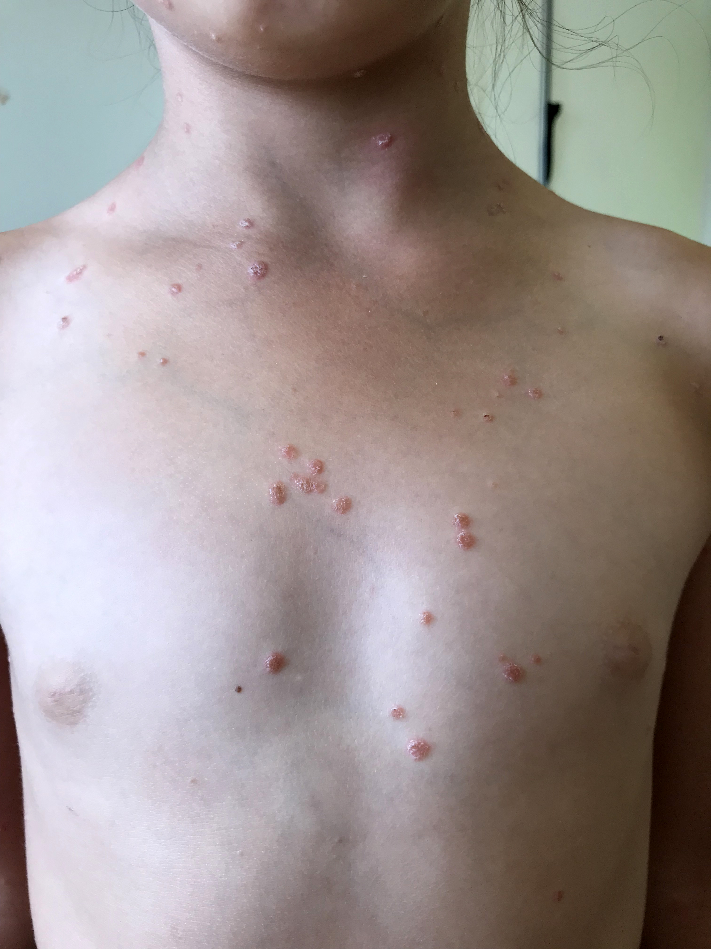 Guttate psoriasis (9 years old girl)